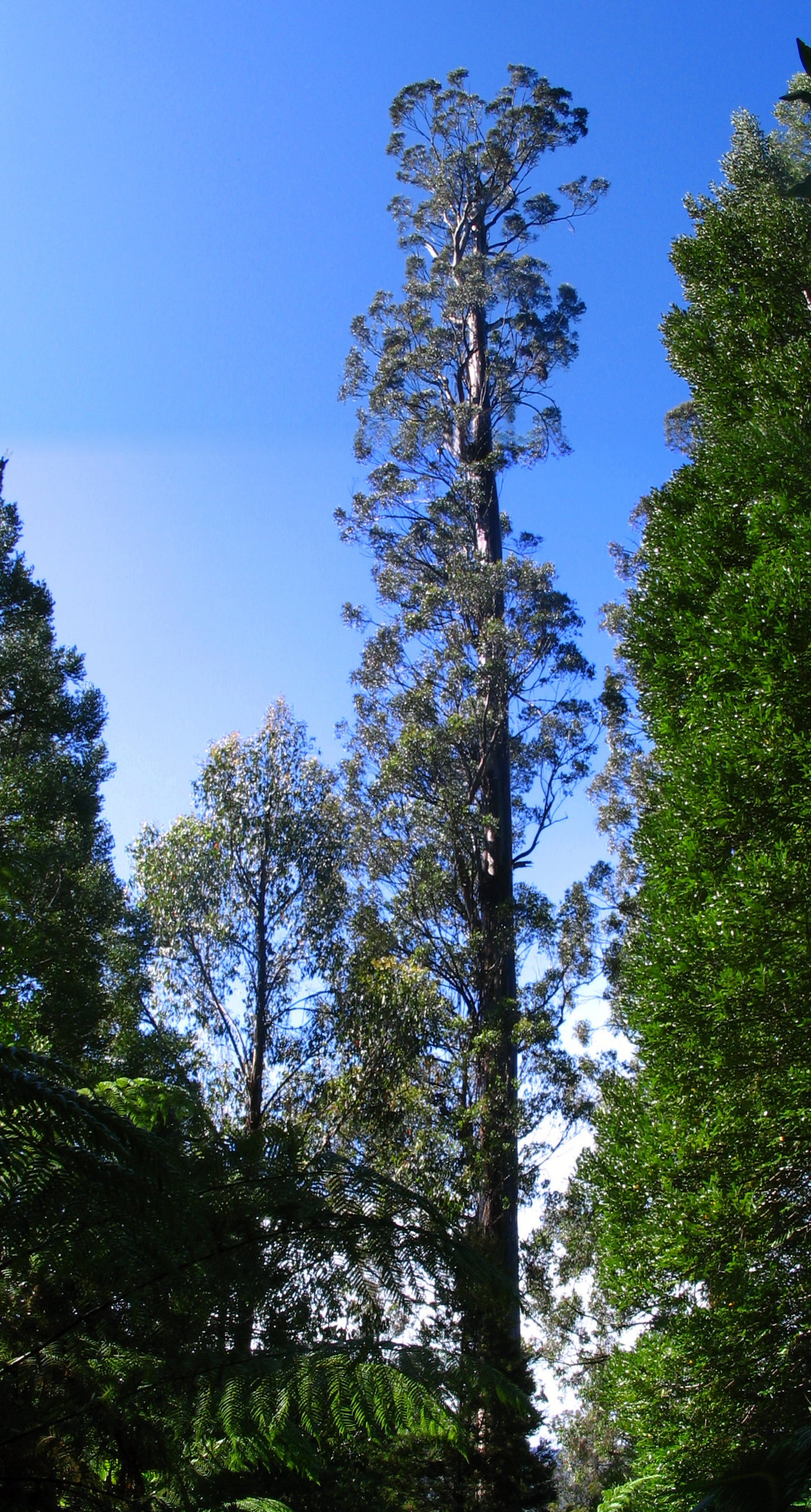 Centurion tree - photo taken up-slope from a gap in the forest created by another old fallen Eucalyptus regnans